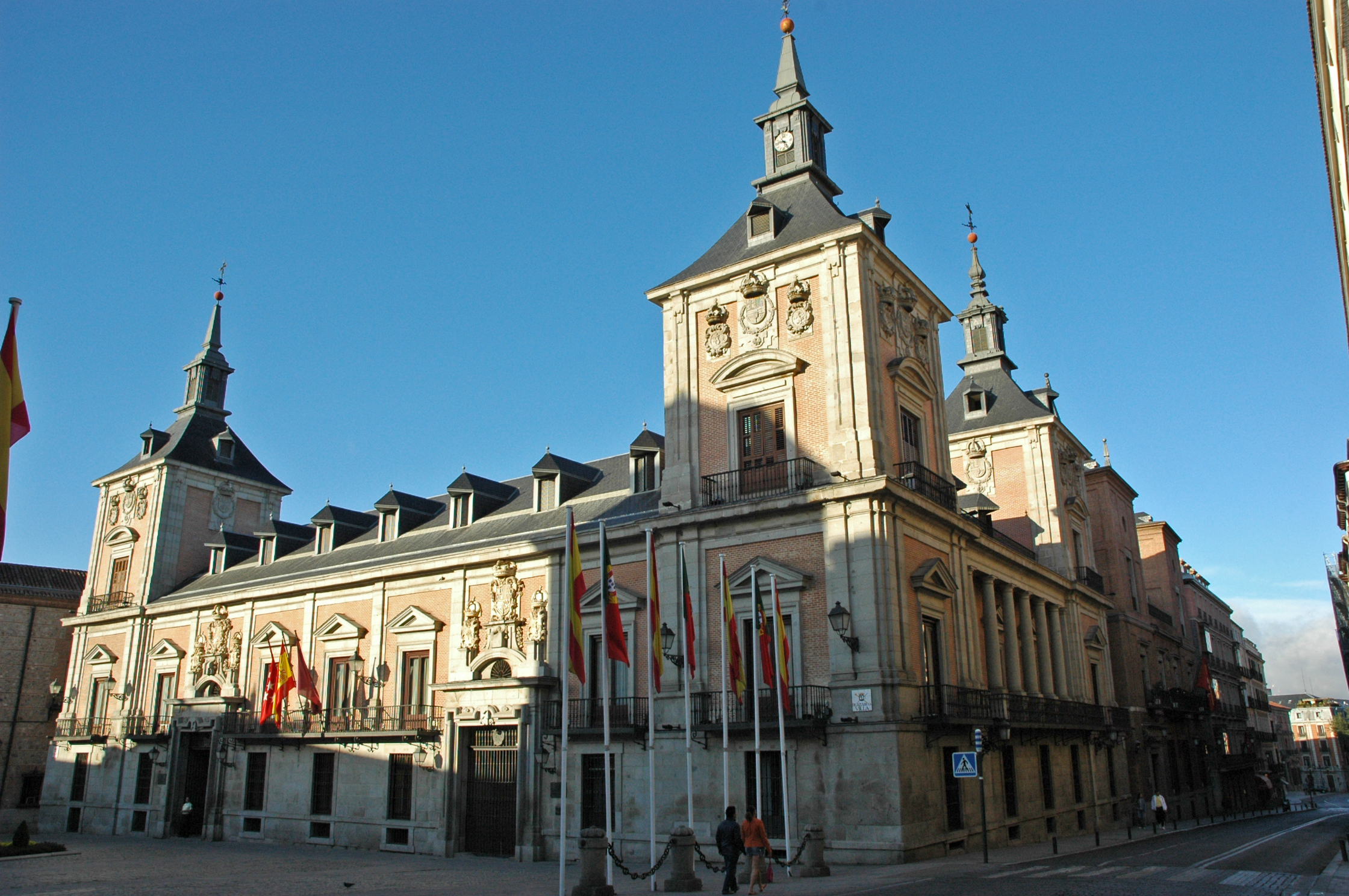 Façade of Casa de la Villa (literally "Town Hall") in Madrid (Spain). Former city hall. Building was projected in 1629 by Juan Gómez de Mora and built between 1644 and 1696. An alteration of north façade (Calle Mayor, street, right) between 1785 and 1789 was made by Juan de Villanueva. Extension between 1857 and 1859 by Juan José Sánchez Pescador.